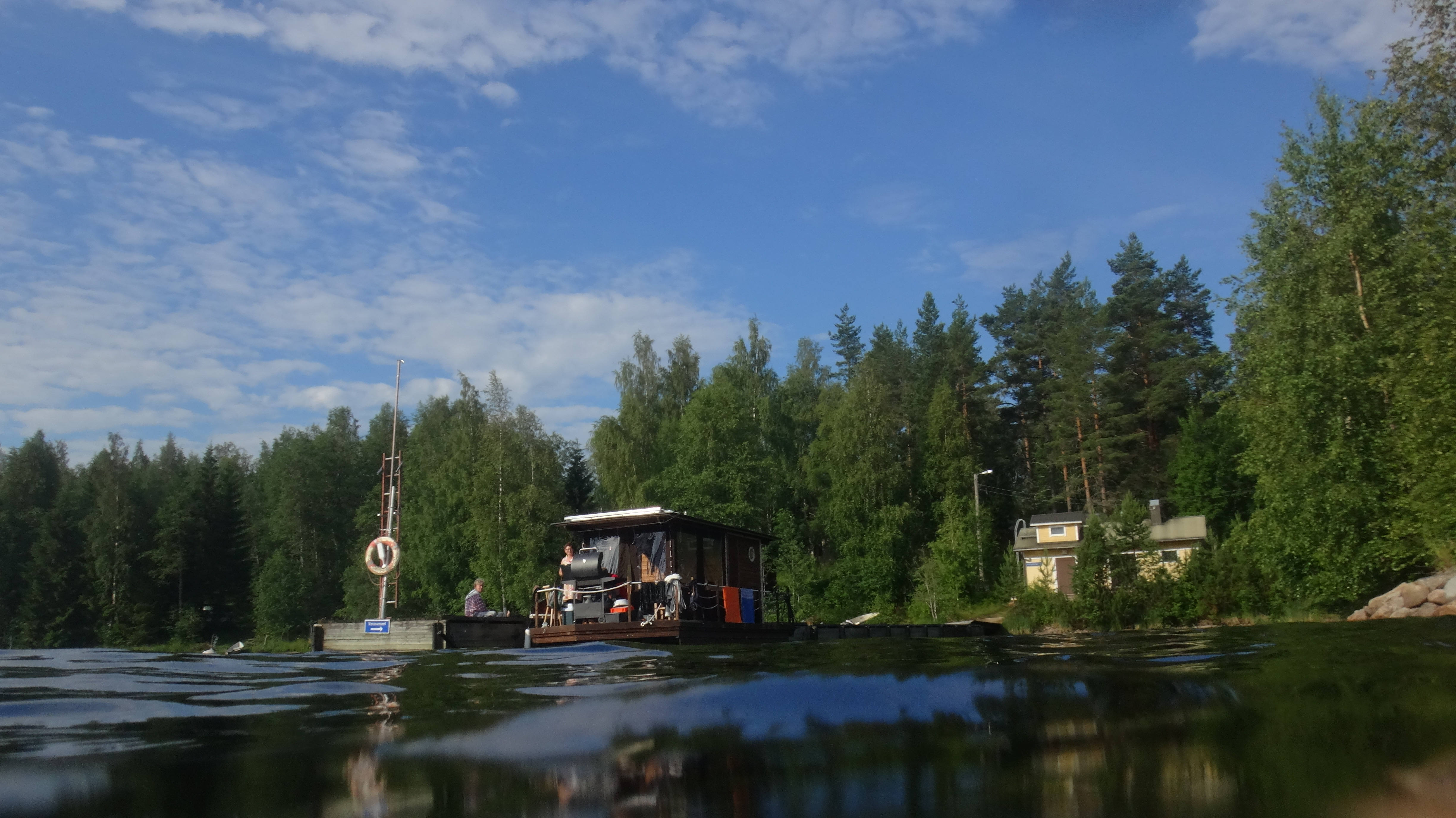 Floating Sauna at Pyhälahti Fishing Port Lake Keitele Konnevesi, Finland Lake District